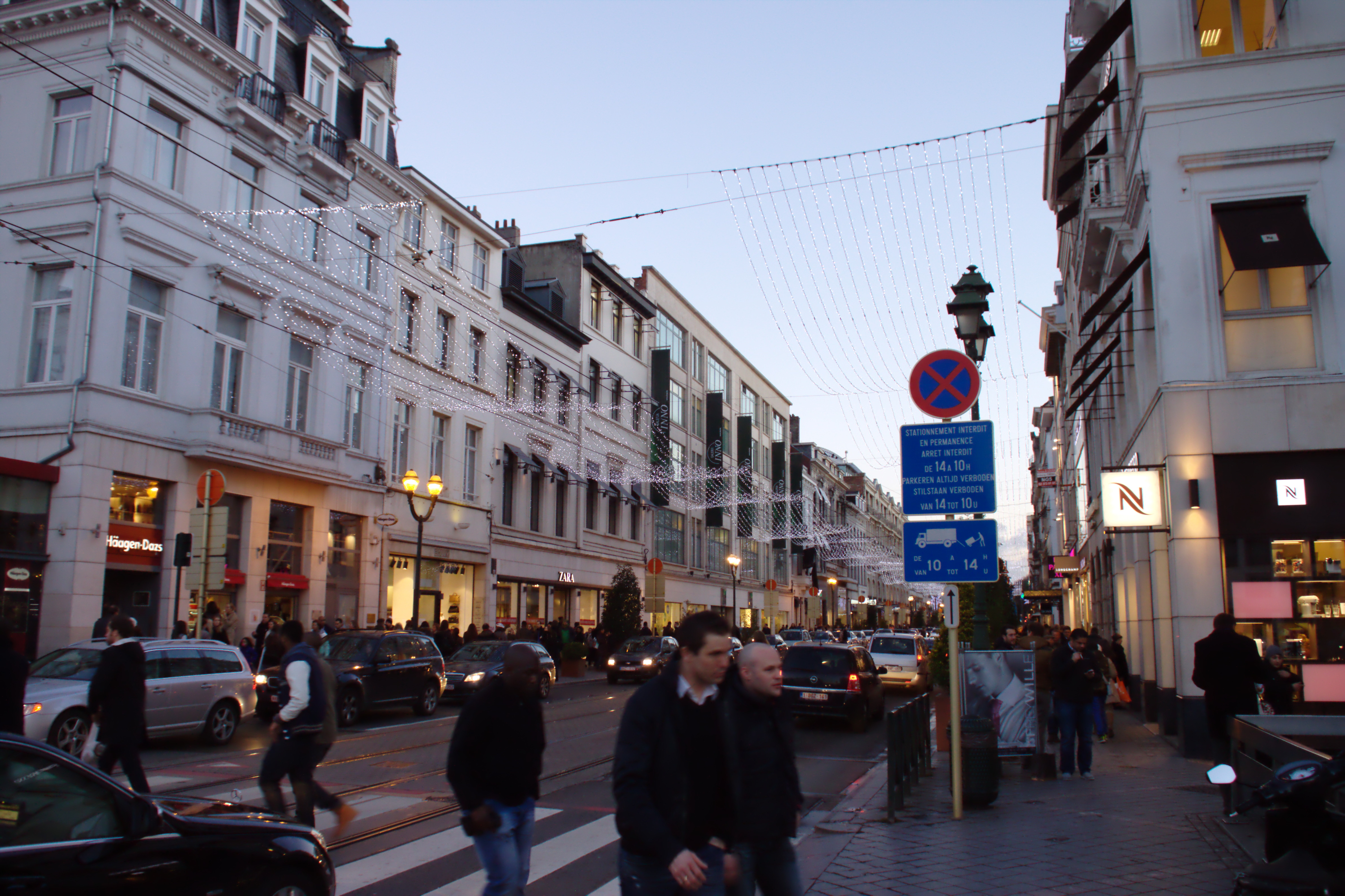 Louise Street in Brussels, Belgium